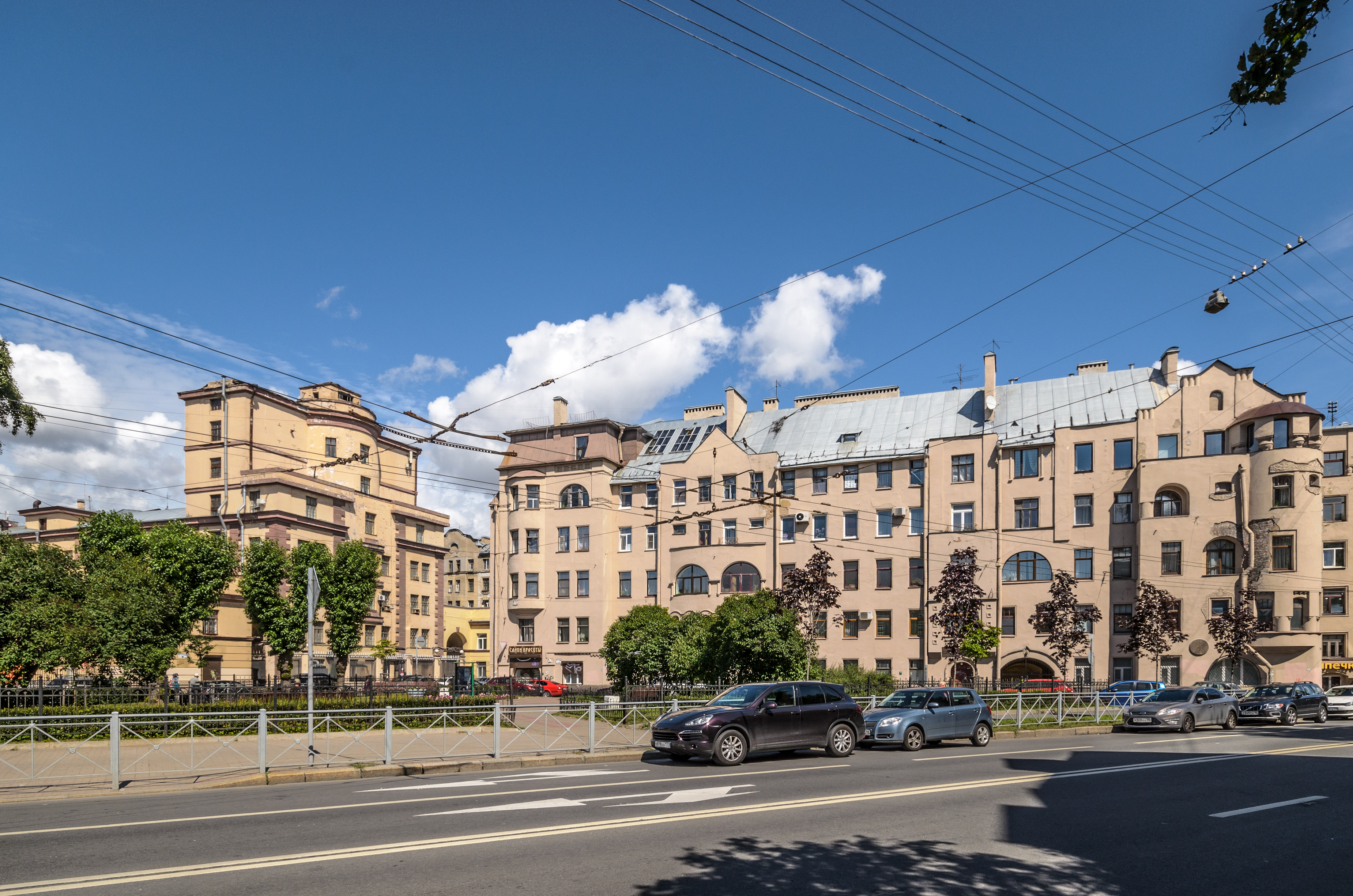 Levashovsky Avenue in Saint Petersburg